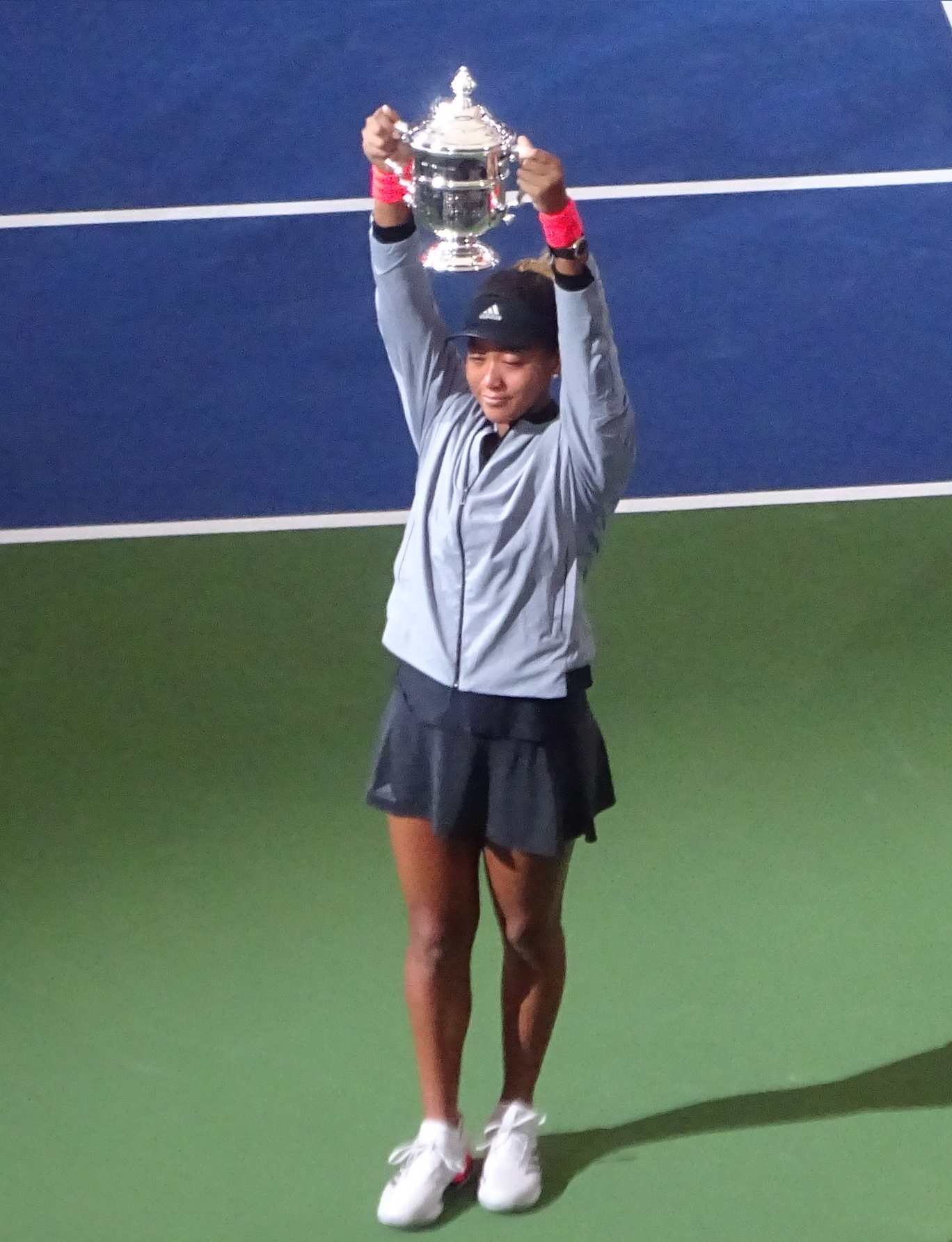 Naomi Osaka won the women's singles event of the 2018 US Open